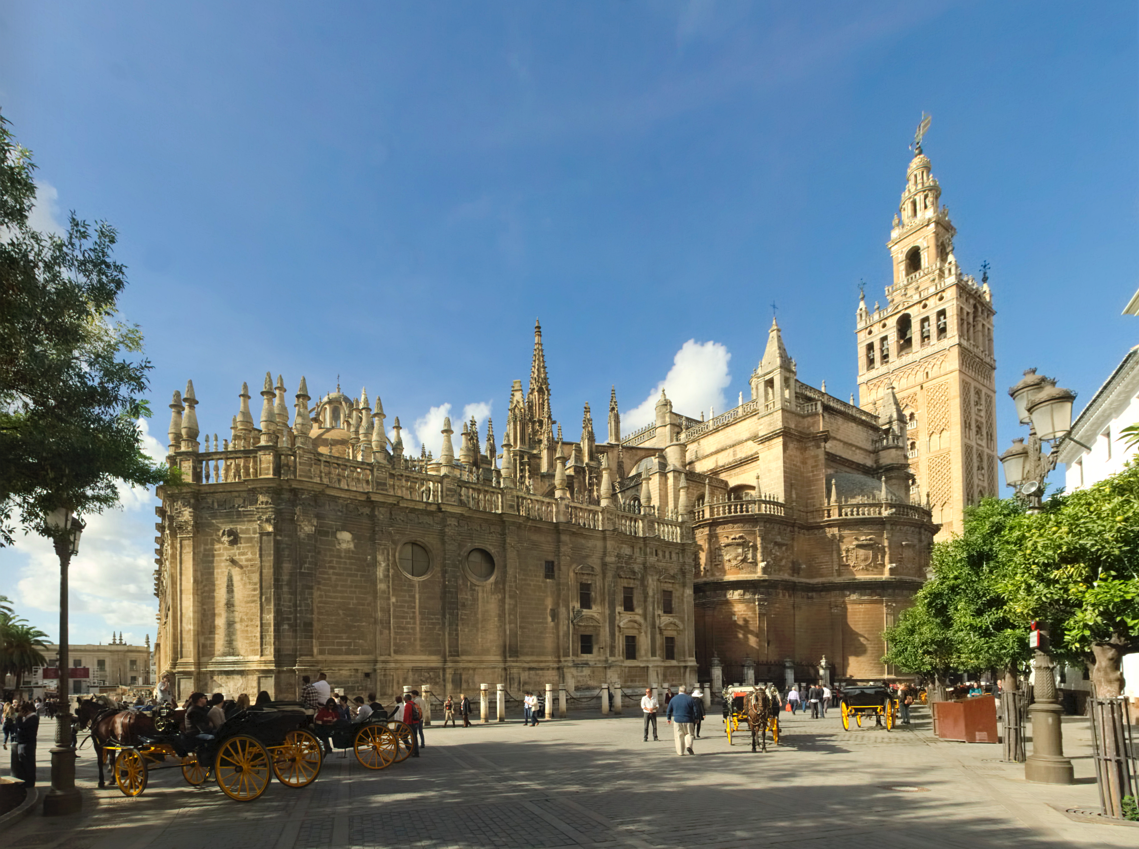 Sevilla Cathedral - Southeastern fassade